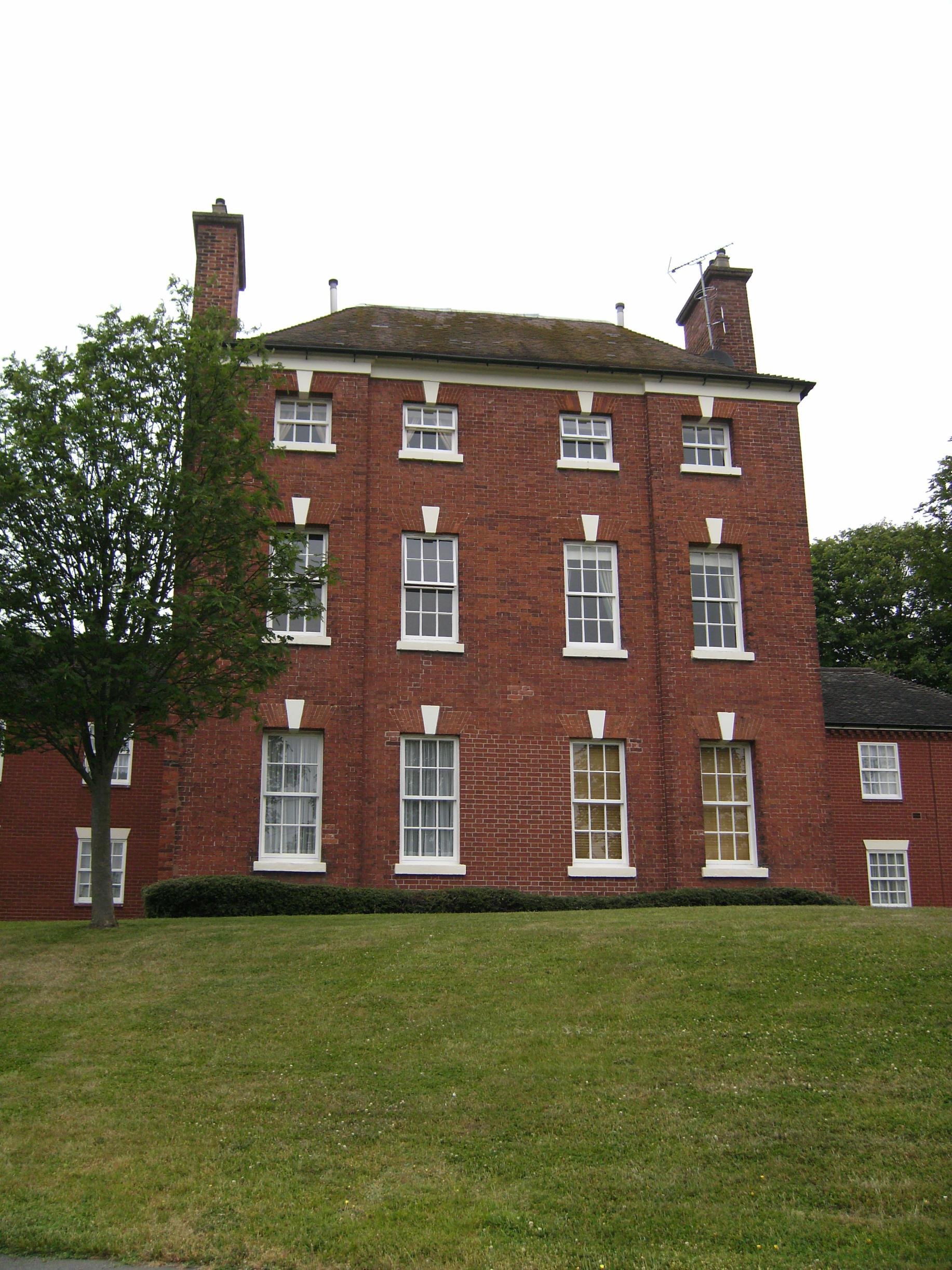 Mansion Court, Wombourne, Staffordshire, UK - formerly Heath House, a seat of the Foley Family, close to Heath Mill on the Wom Brook.